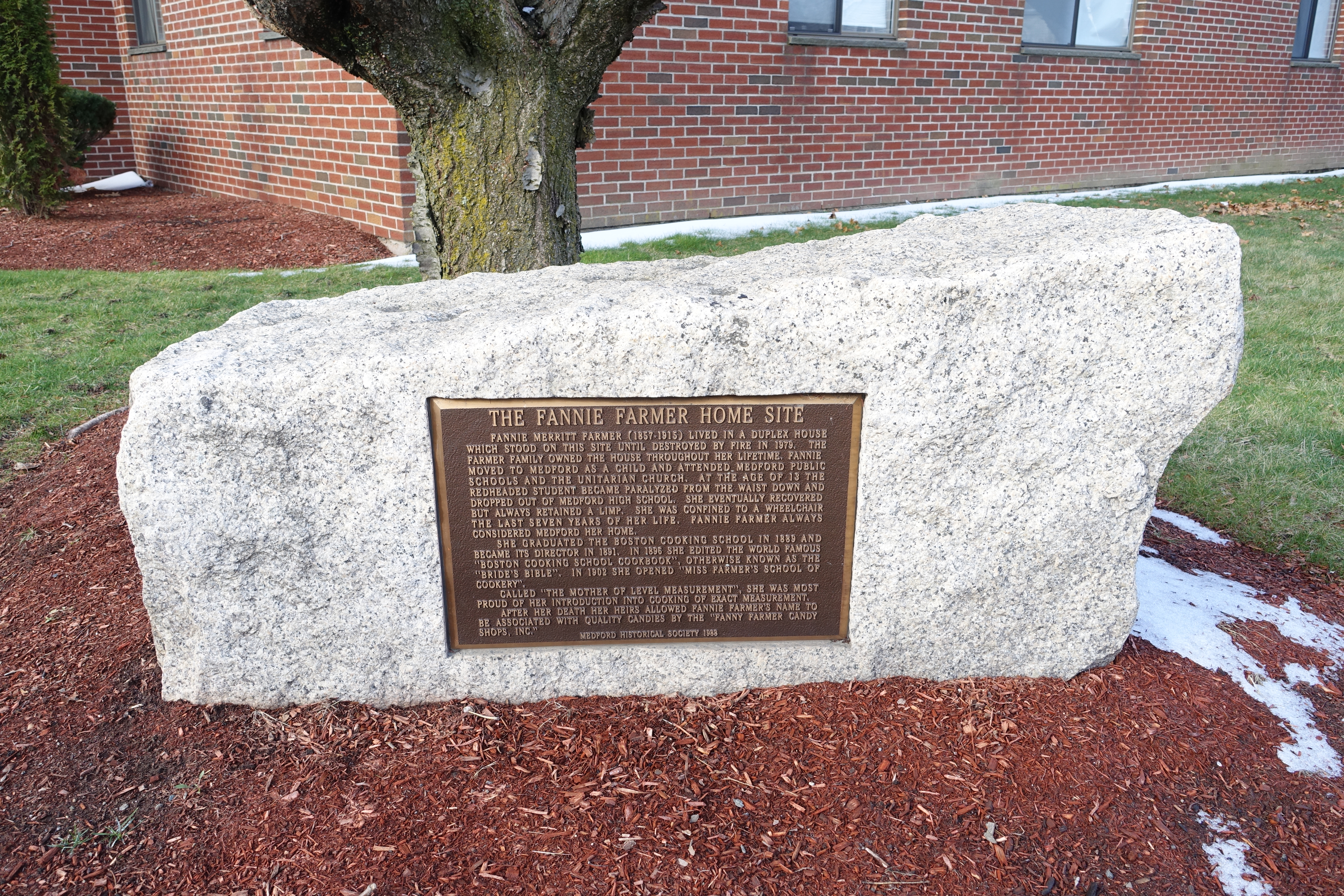 Memorial in Medford, Massachusetts, USA.